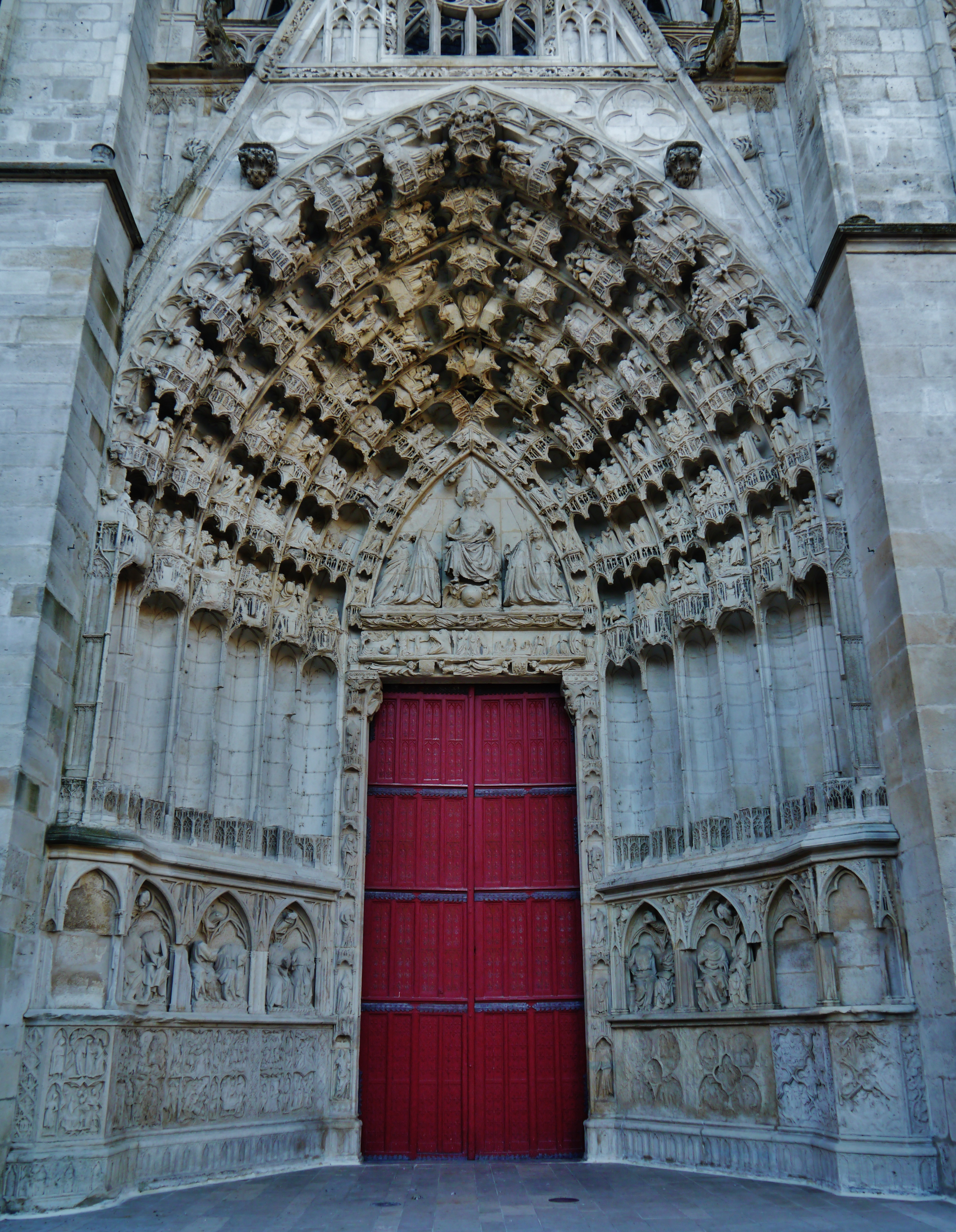 Portal of the Last Judgement of the Cathedral of St. Stephen, Auxerre, Département of Yonne, Region of Burgundy (now Burgundy-Franche-Comté), France